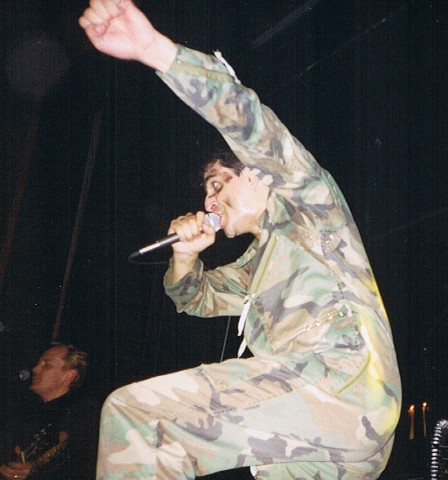 The singer "Jaz" from the British band Killing Joke, Manchester 1994